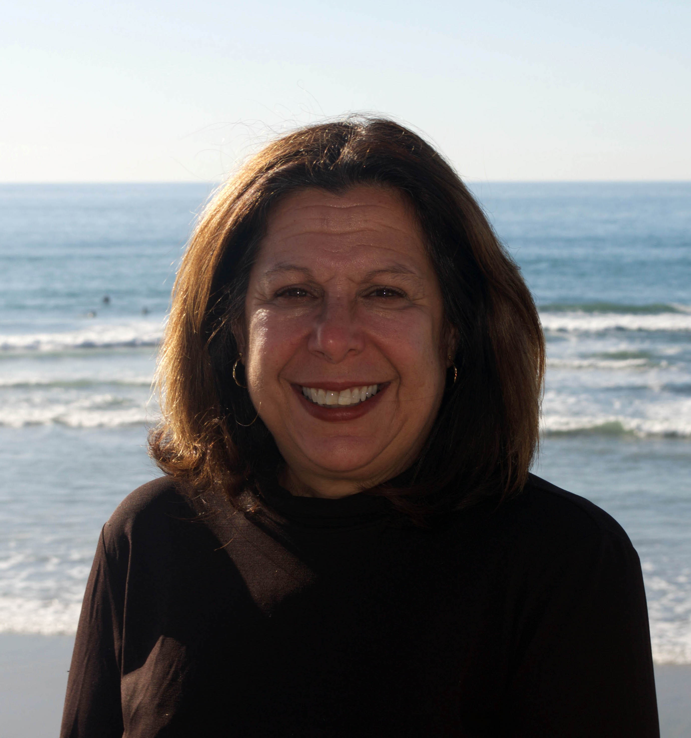 Grassian at Scripps Pier in 2017